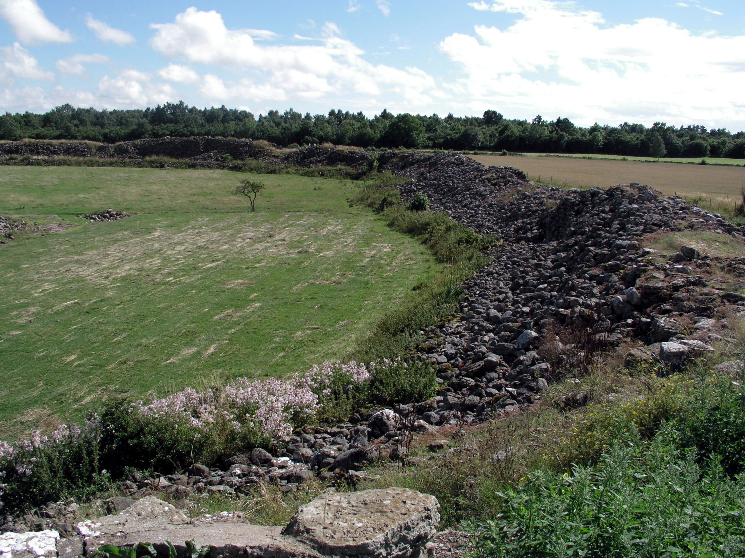 Gråborg, the largest prehistoric circular fort in Sweden, rebuilt to present size in 12th century